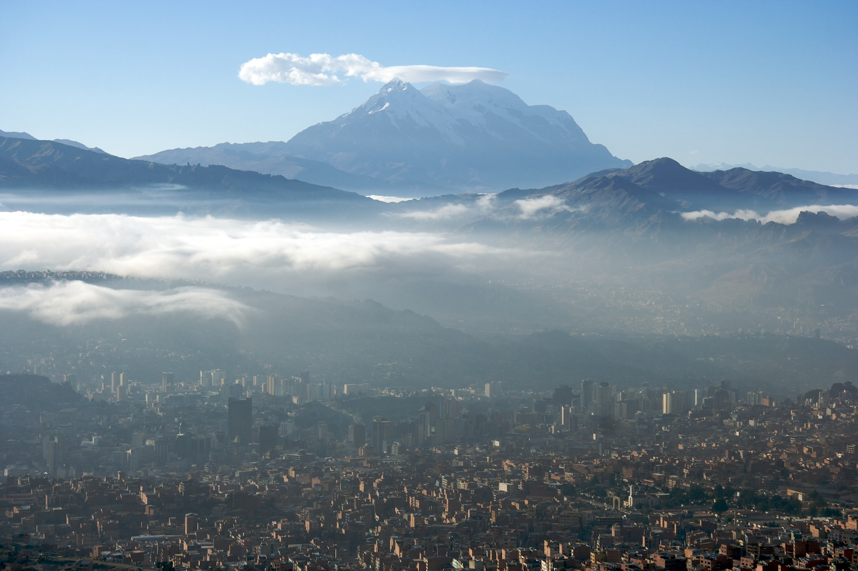 With Illimani at ~6400m in the background